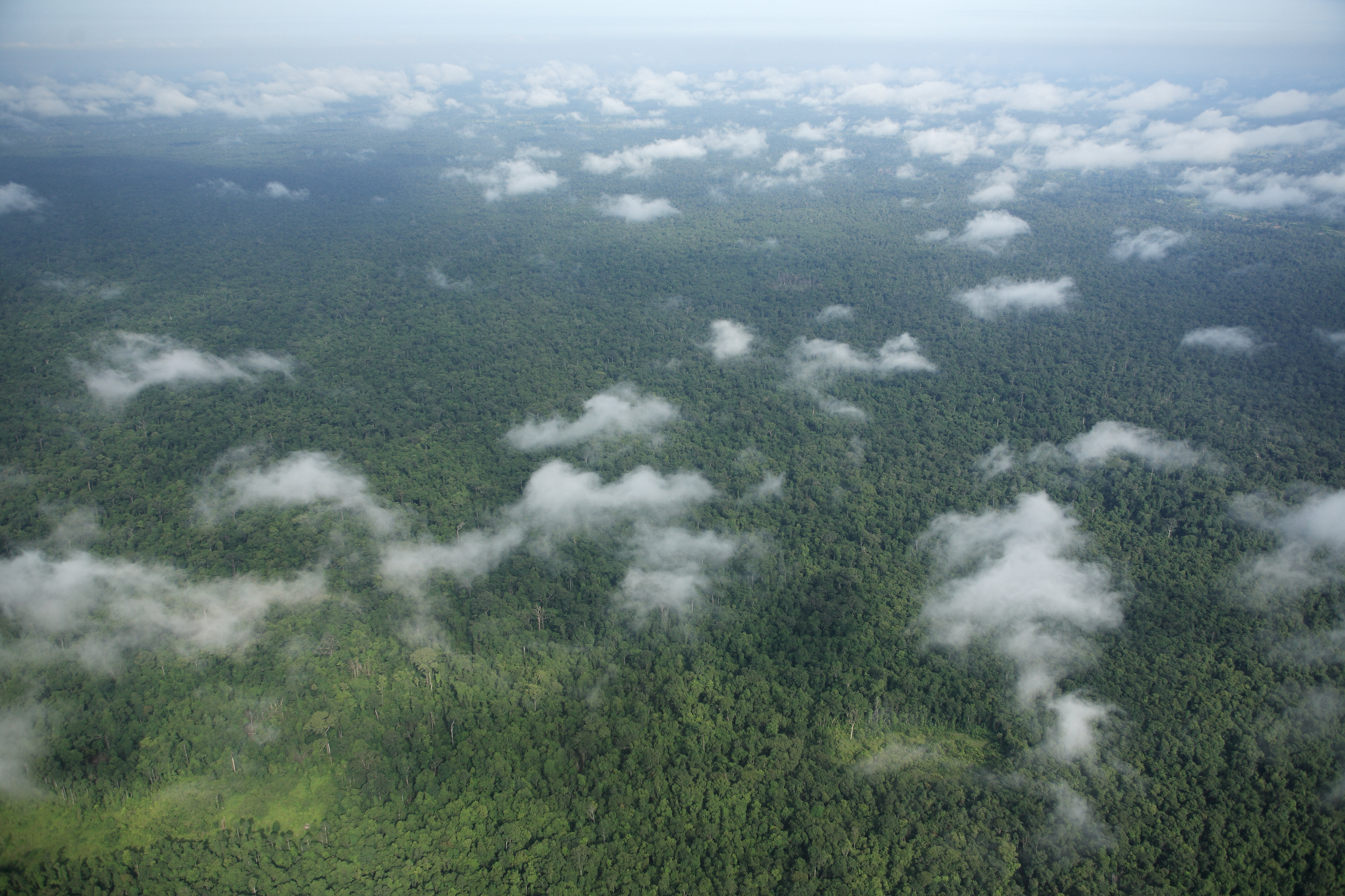 View of the Prey Lang Forest